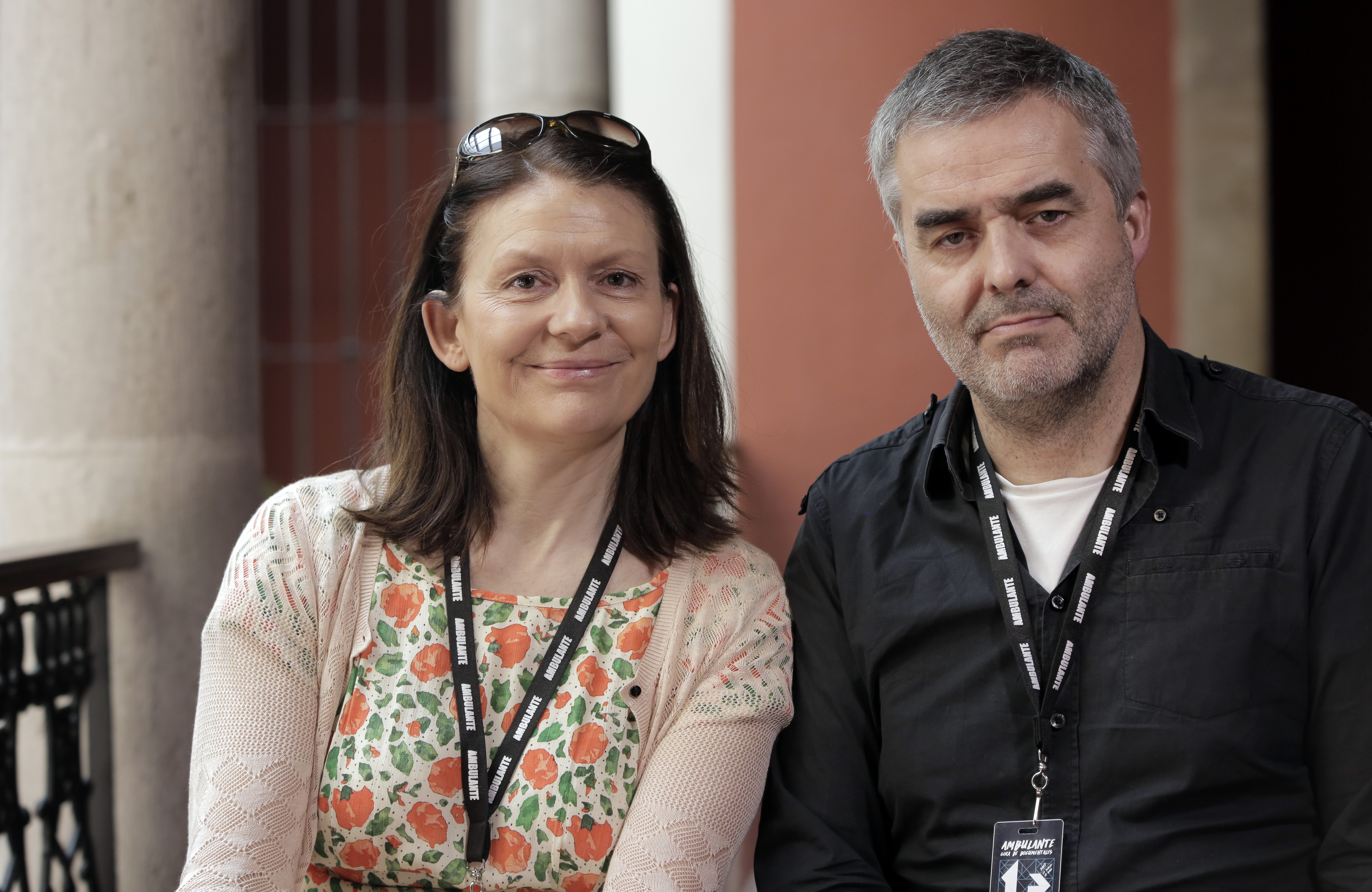 Director Aslaug Holm & Producer Tore Buvarp in a screening of documentary Brothers, in Mexico on 2017. Picture by Ernesto Vargas / Ambulante Festival.